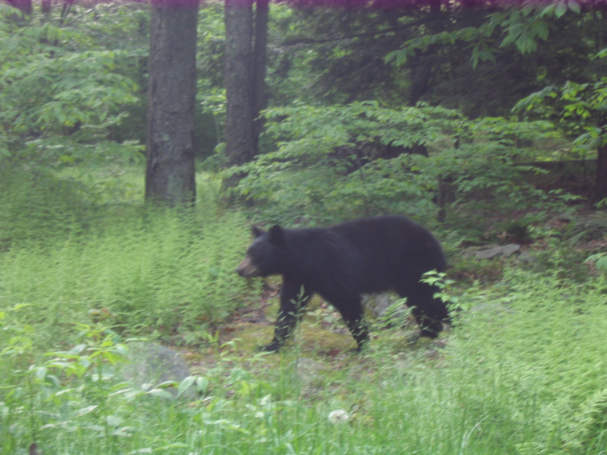 I first noticed this bear when I saw a bunch of campers looking up into a tree. The bear was up in the tree for awhile. I took some pictures and went back to my campsite. About 20 or 30 minutes later, I was reading my book when I looked up and this same bear was within three feet of me. I was startled which scared her away. She came back looking for food (our neighbors in the adjoining campsite were cooking bacon) and I took some more pictures.